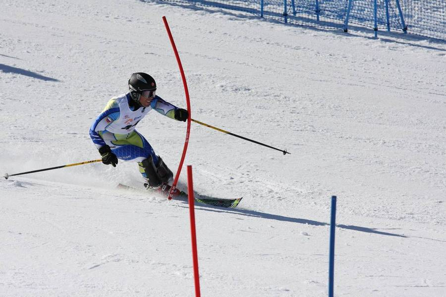 Miha Vindišar at the 2010 Winter Military World Games